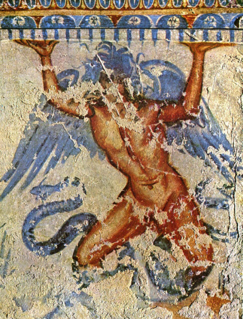 Etrurian Fresco from the "Tomba di Tifone" in Tarquinia.